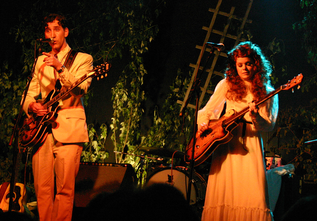 Blanche at St. Andrews Hall, Detroit, MI